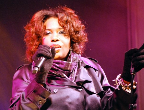 Macy Gray performs live on Bloor Street in Downtown Toronto, Canada, to mark the start of the 2008 Christmas holiday season.